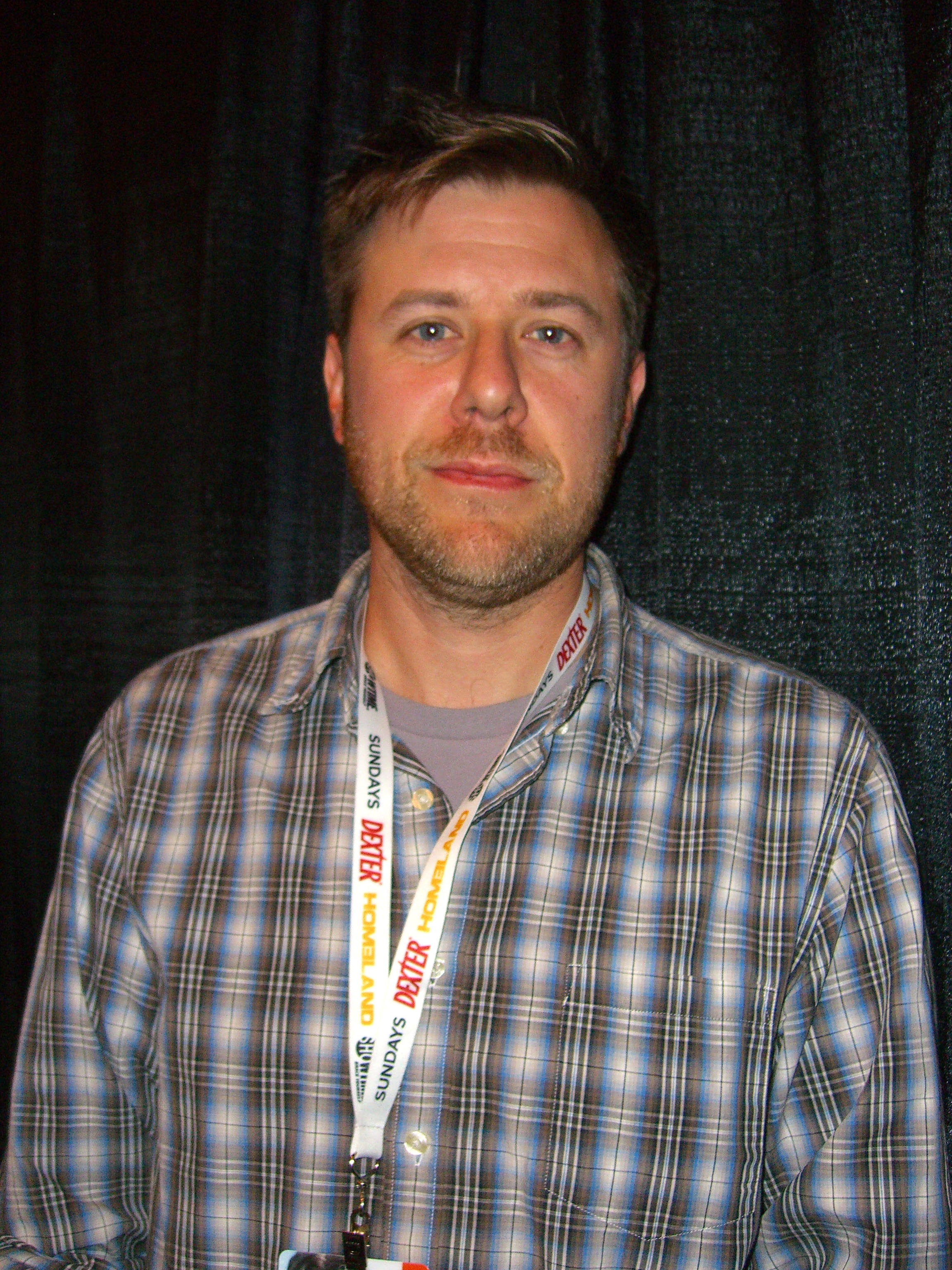 Artist and production designer Scott Campbell (known professionally as Scott C.) on Day 4 of the 2012 New York Comic Con, Sunday October 14, 2012 at the Jacob K. Javits Convention Center in Manhattan. This photo was created by Luigi Novi. It is not in the public domain, and use of this file outside of the licensing terms is a copyright violation.